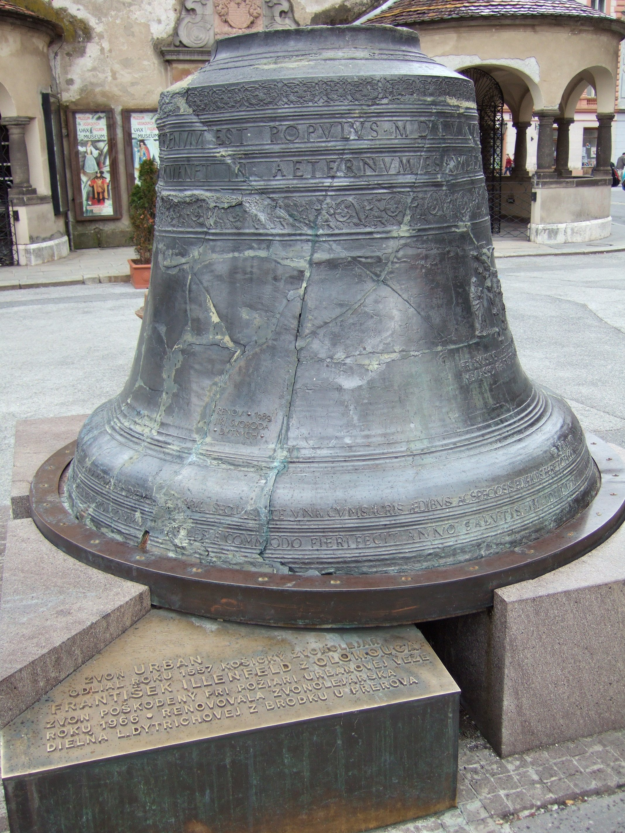 St. Urban Bell in Košice, Slovakia - cast in a mould by the bell-founder Franciscus Illenfeld of Olomouc in 1557